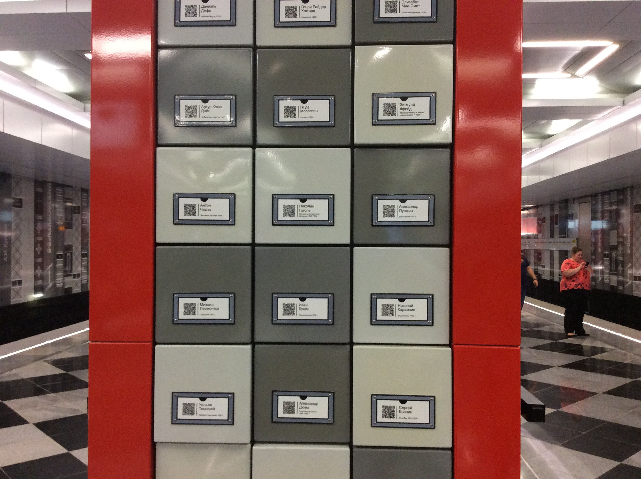 Rasskazovka (Moscow Metro), the opening day.